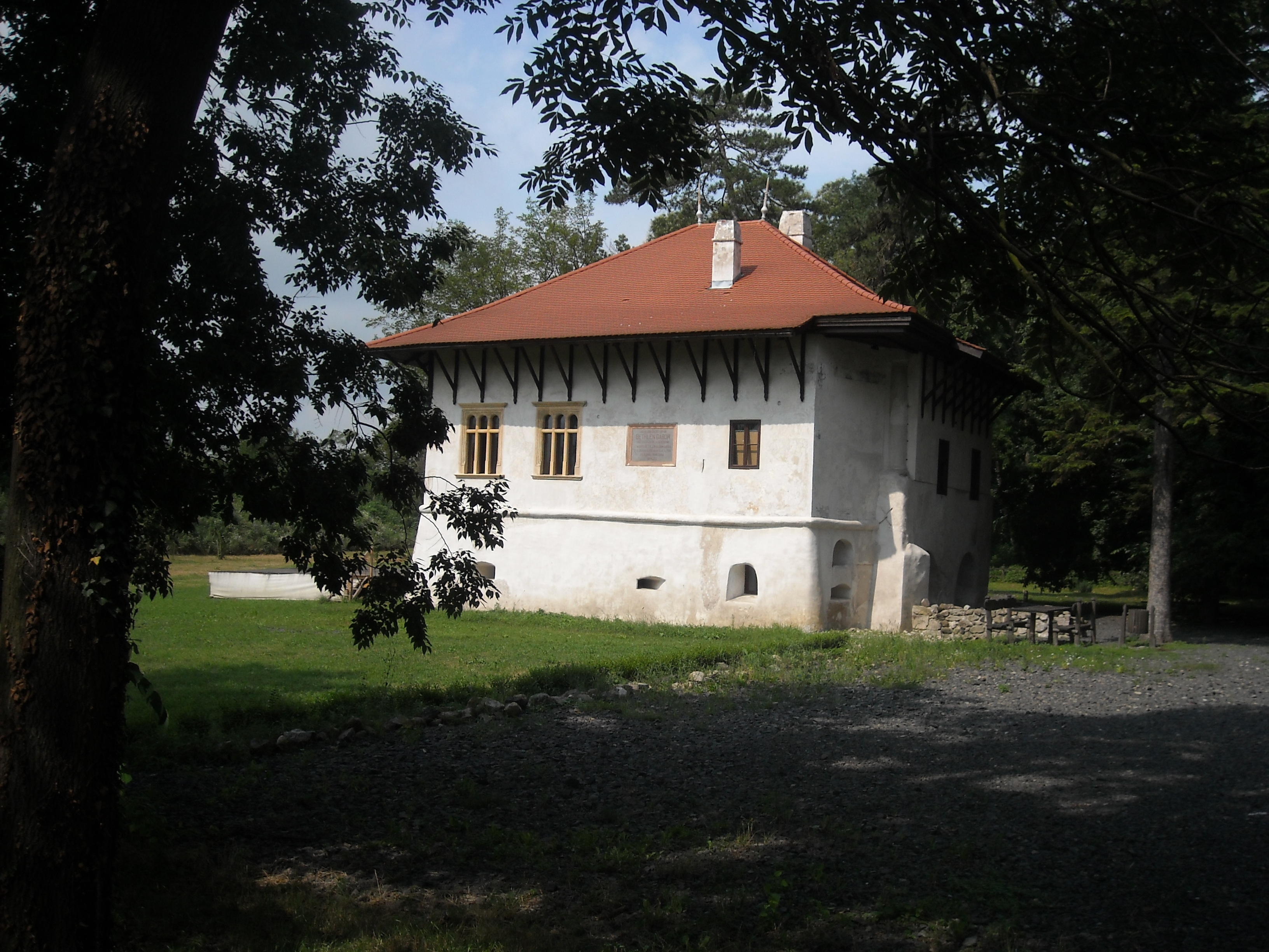 the Red Bastion, the only remnant from the Renaissance castle of Marosillye (Ilia) and the supposed birthplace of prince Gábor Bethlen